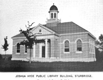 Public library, Massachusetts